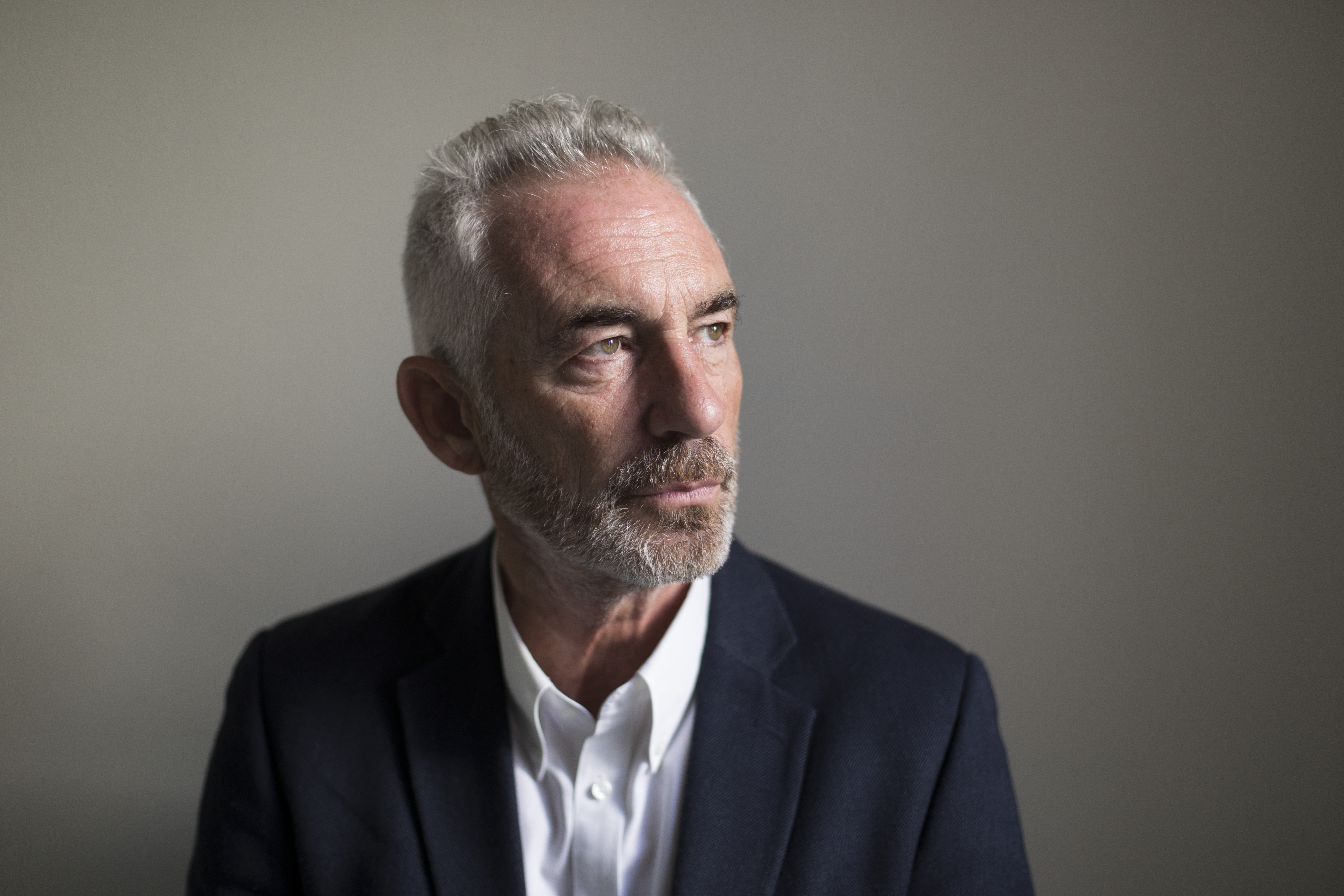 Tim Jackson, grøn økonom